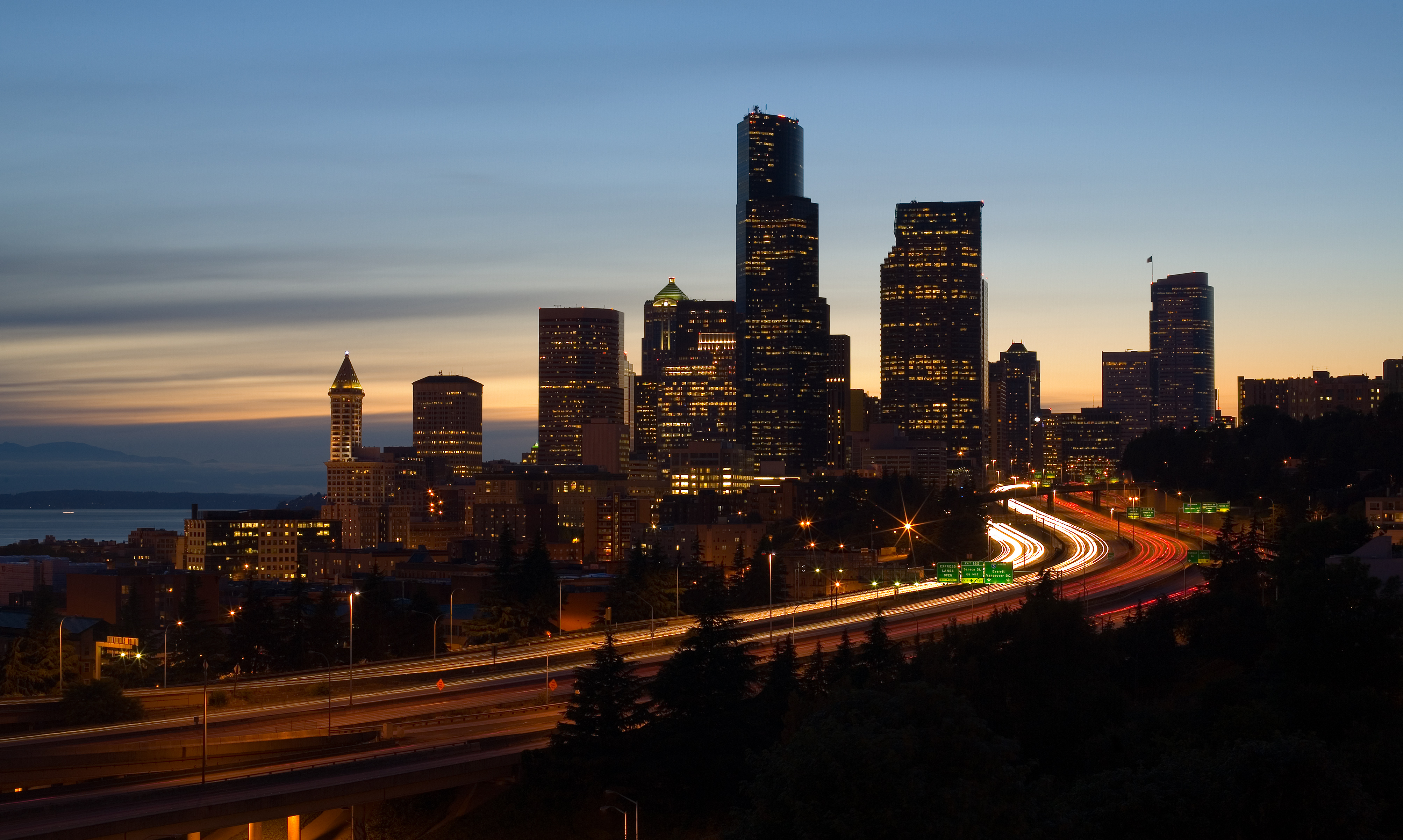 The skyline of Seattle, Washington at dusk. Interstate 5 is the freeway that cuts through downtown and Puget Sound is visible to the left.